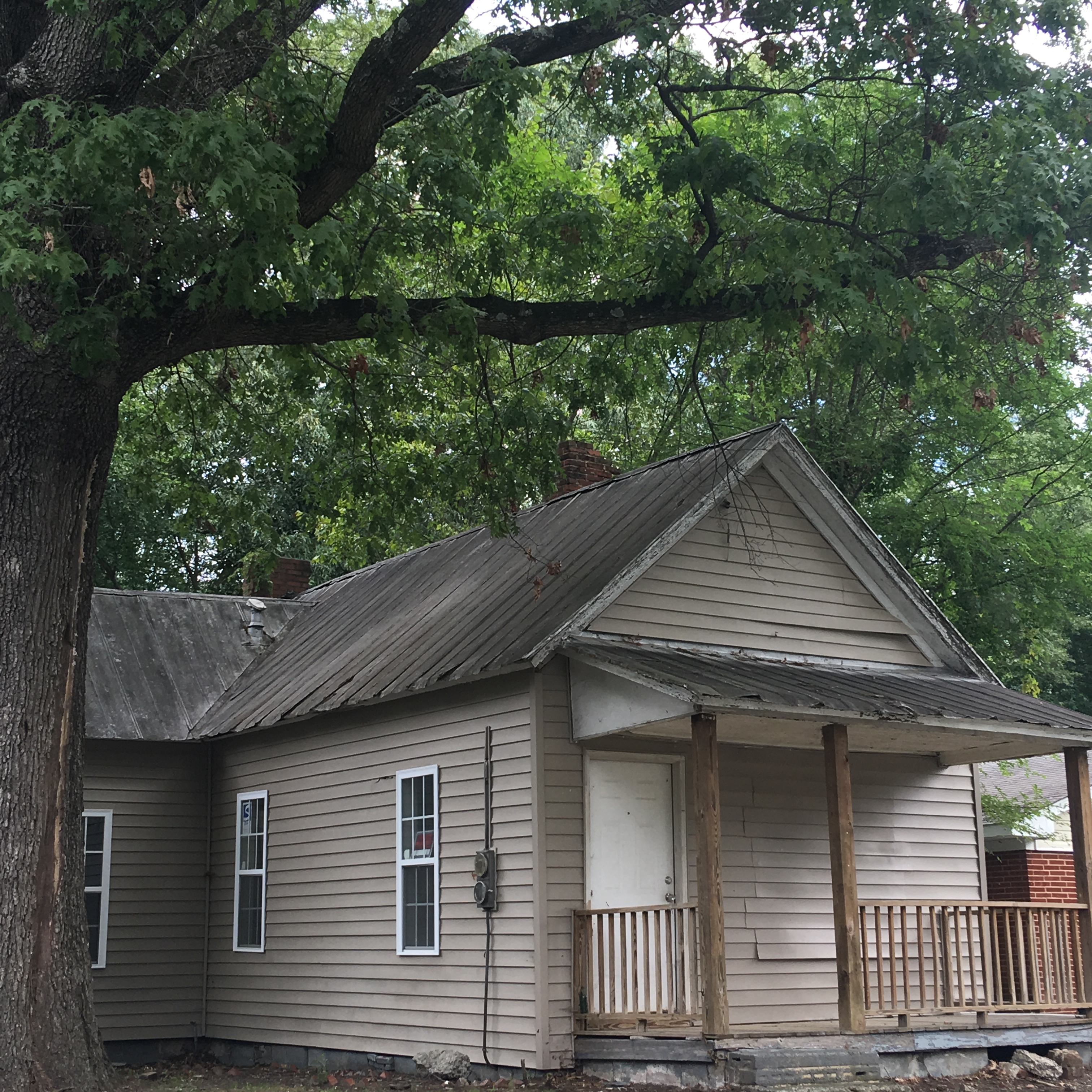 George Wall House on Onslow Street in the Walltown neighborhood of Durham, North Carolina. Wall, a former slave later employed by Trinity College (later Duke University), purchased the home and later became the namesake of the neighborhood. The house was built in the early 1900s.